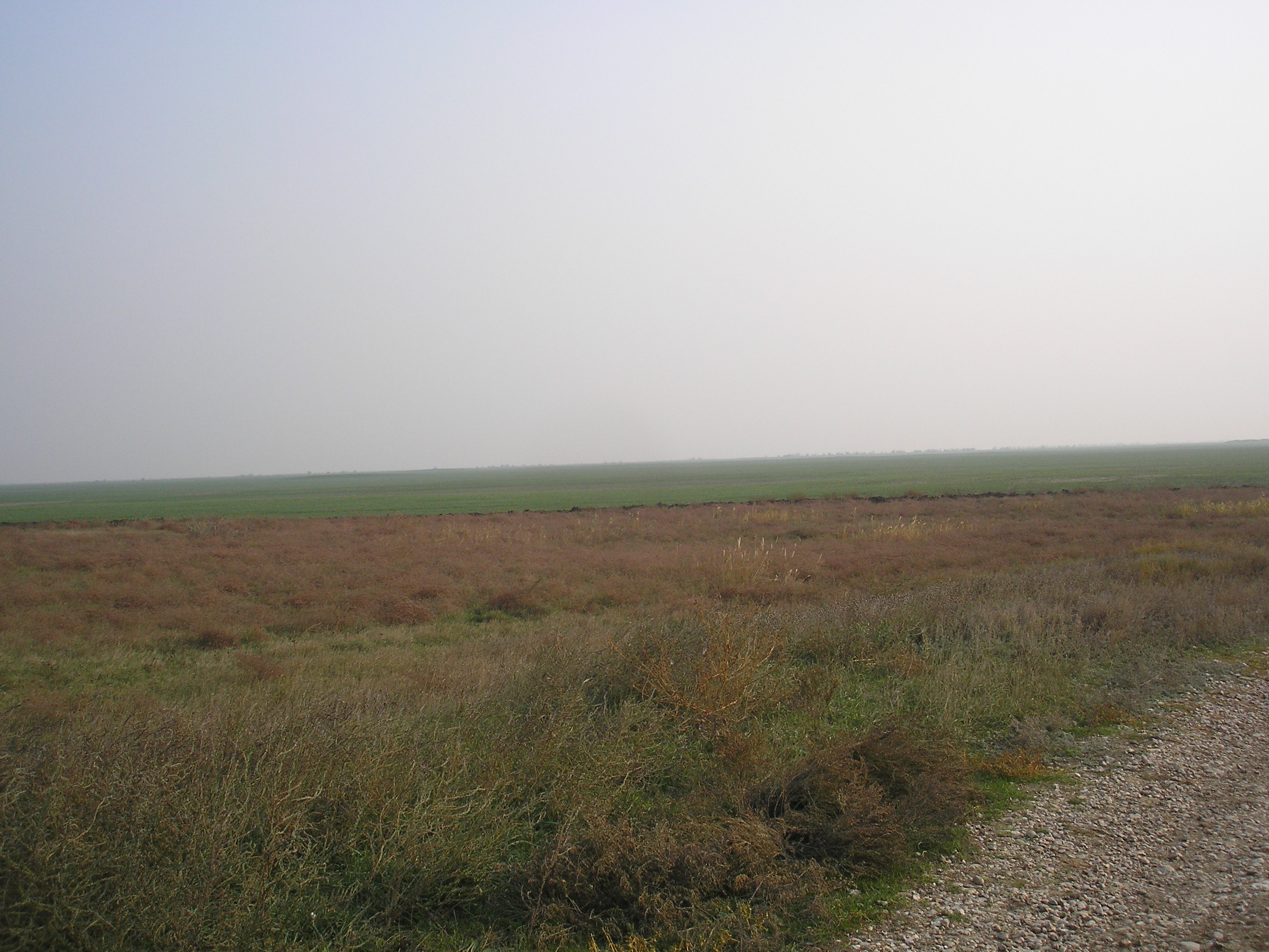 Crimean steppe, Nizhnegorsk district